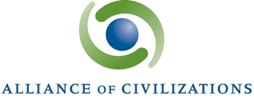 UNAOC Small Logo